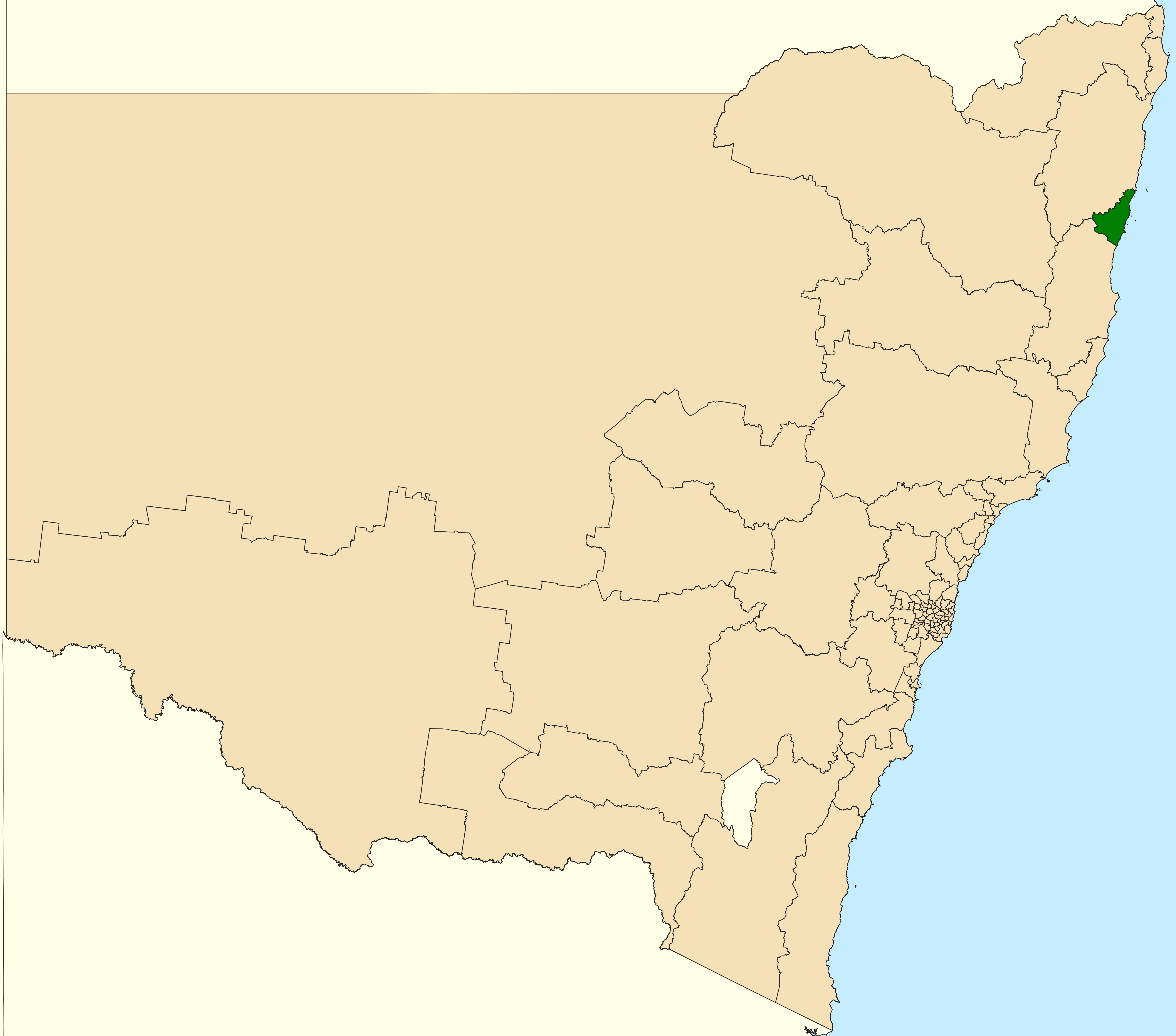 Location of the state electoral district of Coffs Harbour (dark green) in New South Wales as of the 2019 New South Wales state election. Incorporates or developed using Administrative Boundaries ©PSMA Australia Limited licensed by the Commonwealth of Australia under Creative Commons Attribution 4.0 International licence (CC BY 4.0).